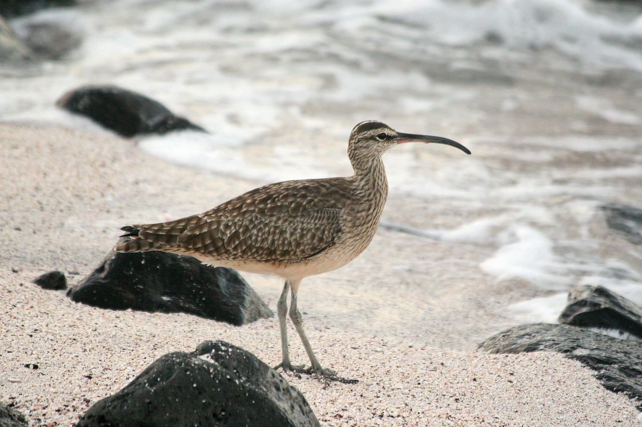 Whimbrel on Espanola Island, Galapagos